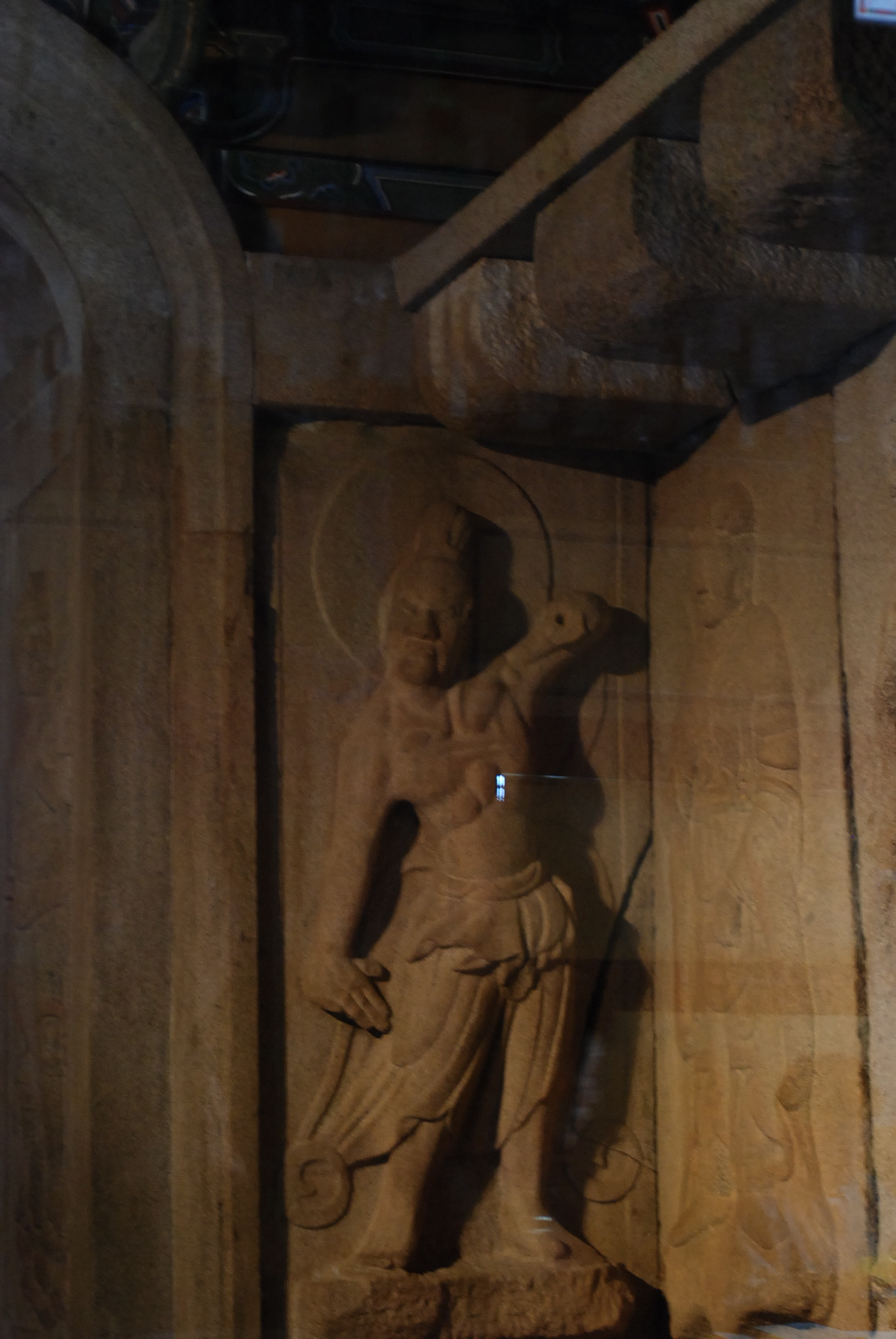 Rare photo of a guardian figure inside the Seokguram Grotto.